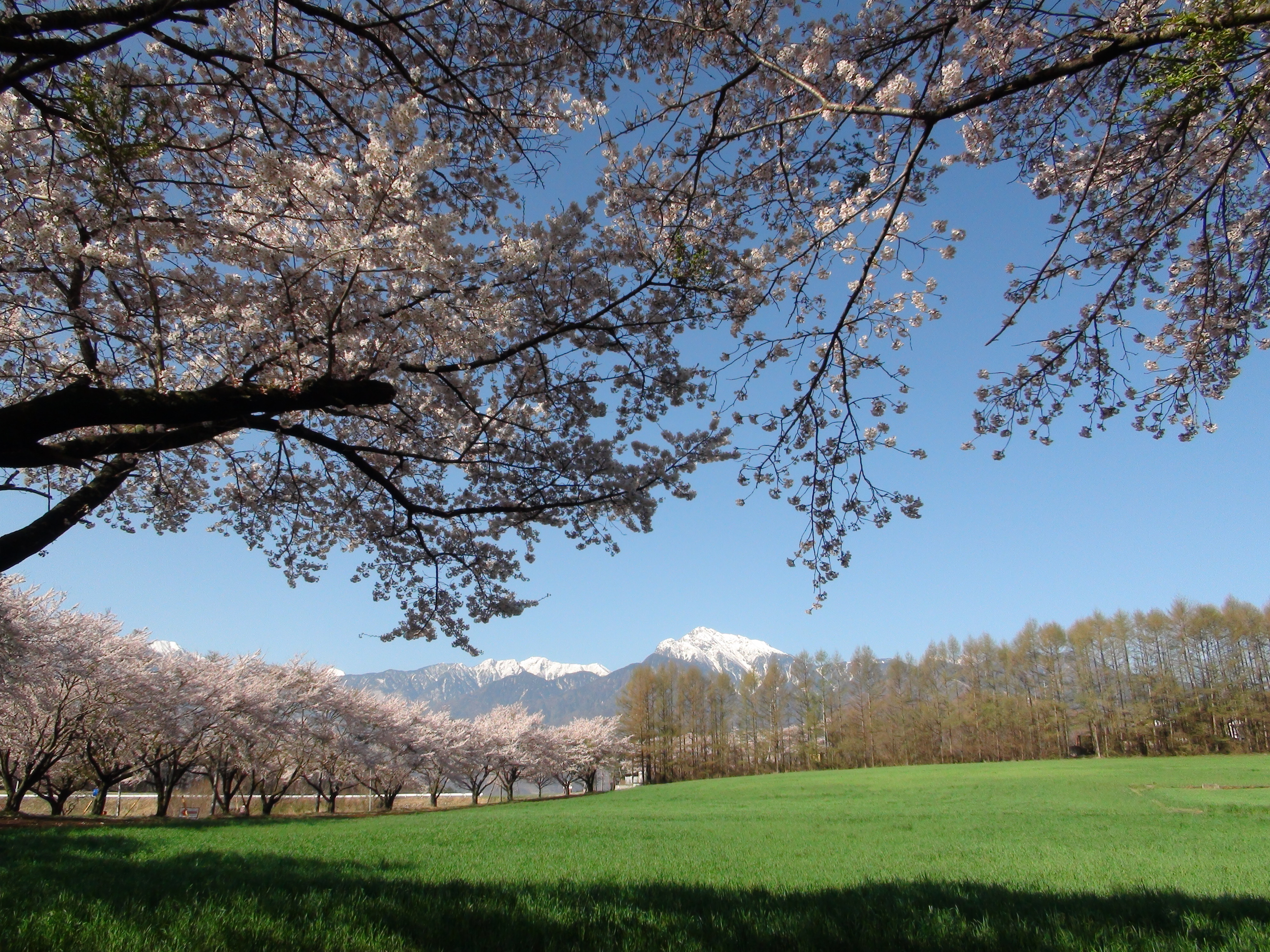 Kabura district cherry trees